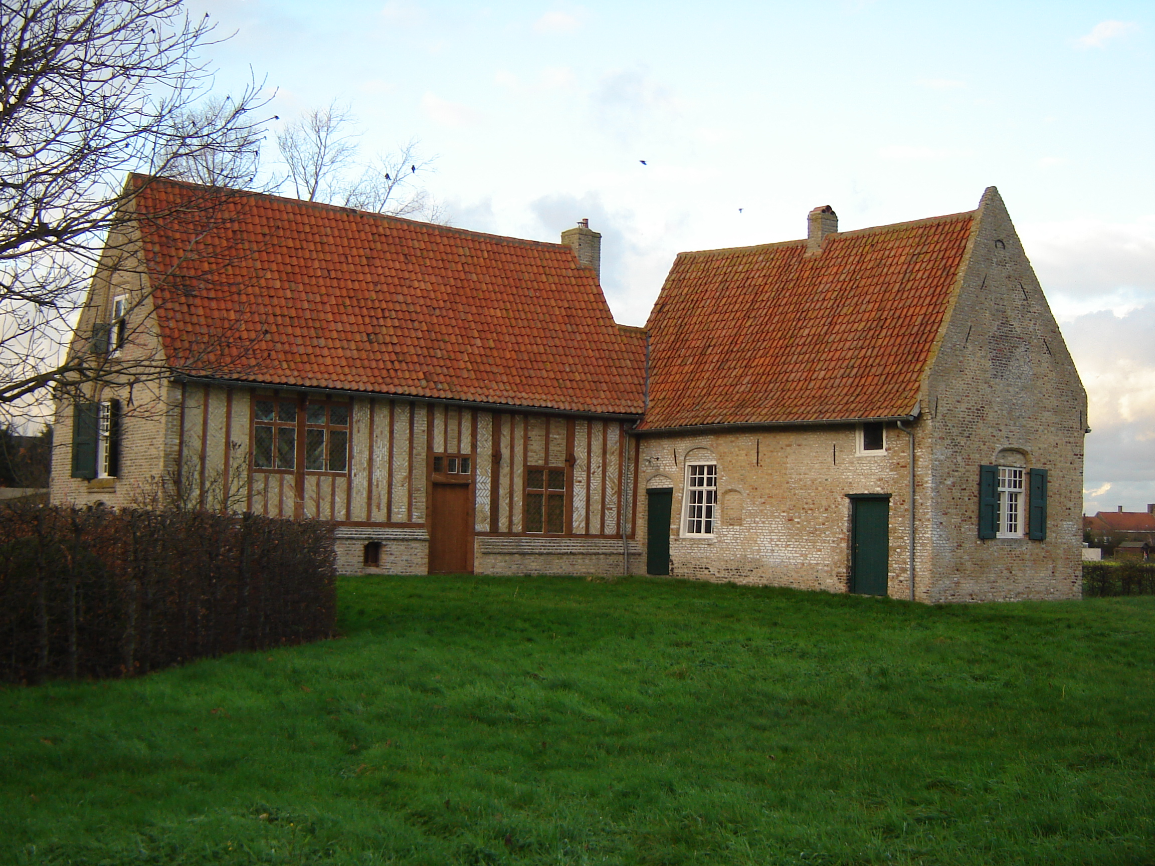 Hoeve Inghels in Leisele, Alveringem. Inghels Farm in Leisele, Alveringem, West-Flanders, Belgium. Preserved 16th century farm in timbered building style.